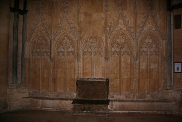 Shrine of Little Saint Hugh The remains of the shrine of Little Saint Hugh, a Christian boy allegedly crucified by Jews in 1255